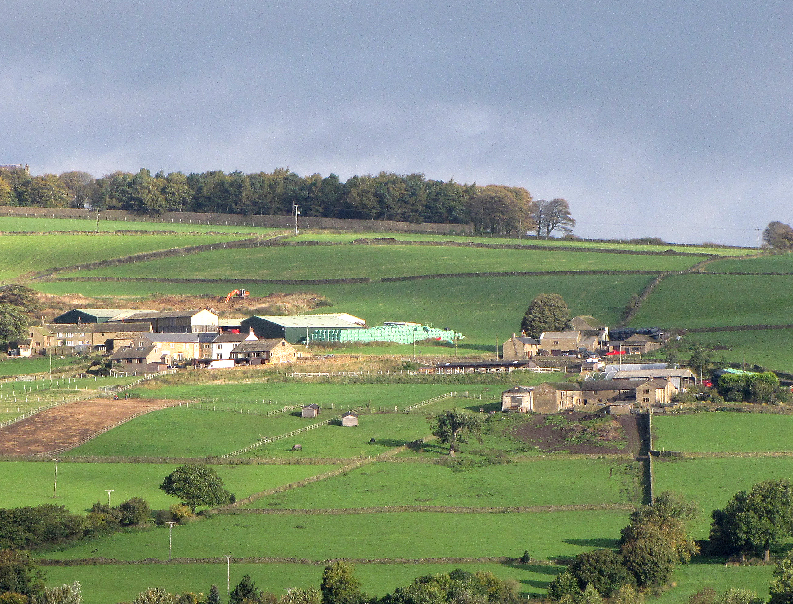 The farming hamlet of Holdworth in Sheffield, England. Seen across the Loxley valley from the village of Storrs, 2.5 km to the south.